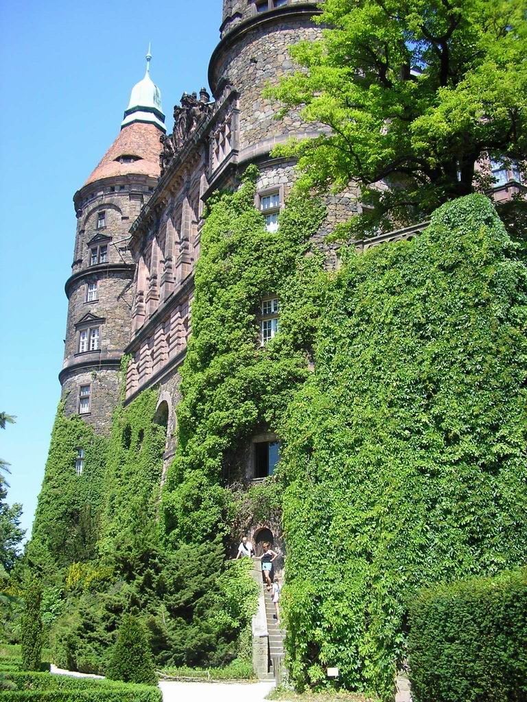 The western facade-the green wall (Ksiaz)